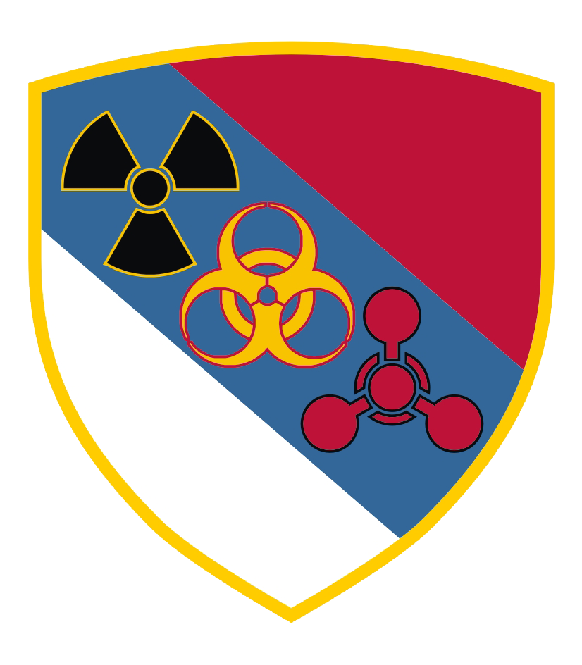 NBCW of SAF patch